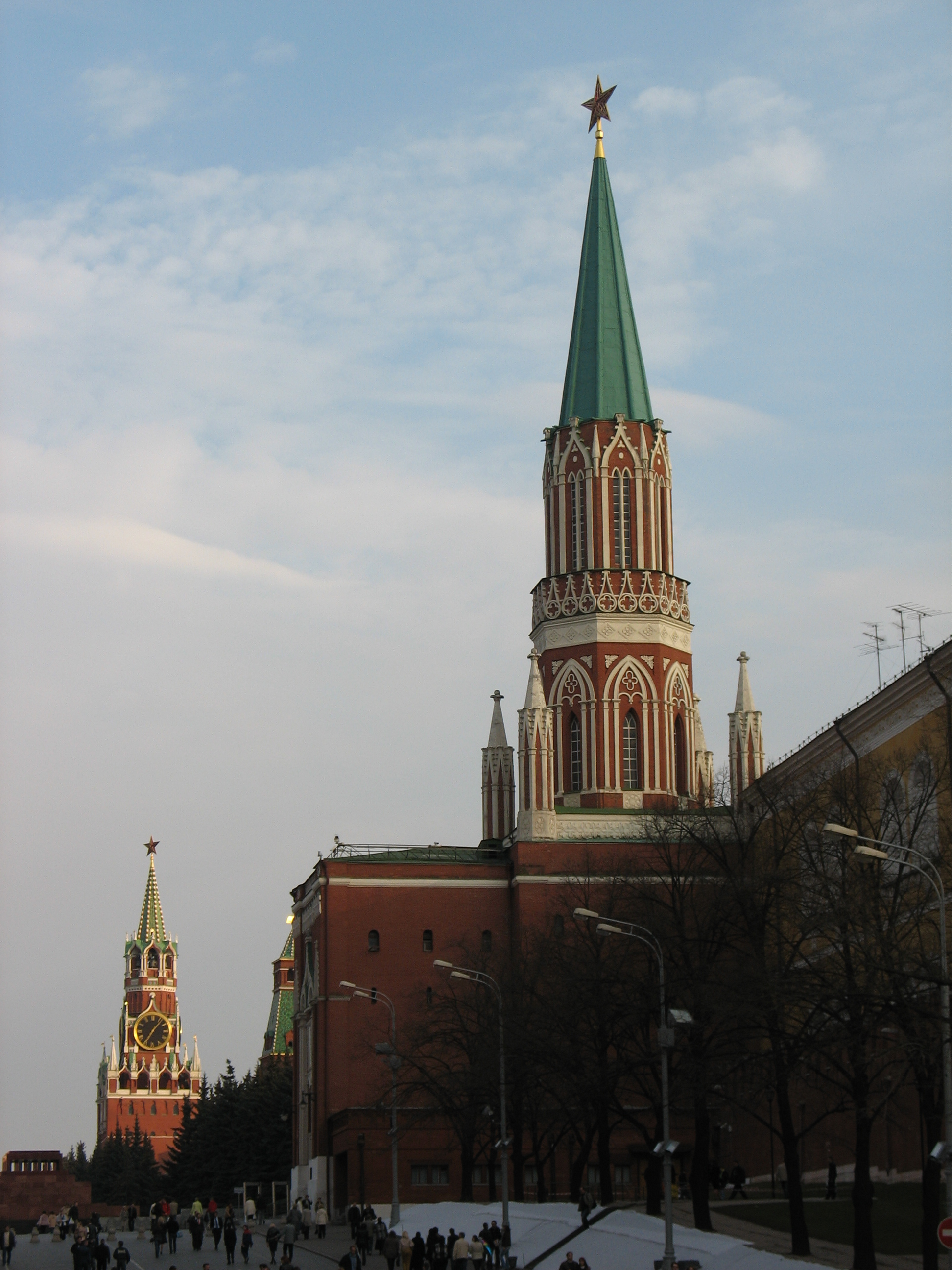 Nikolskay Tower of Moscow Kremlin